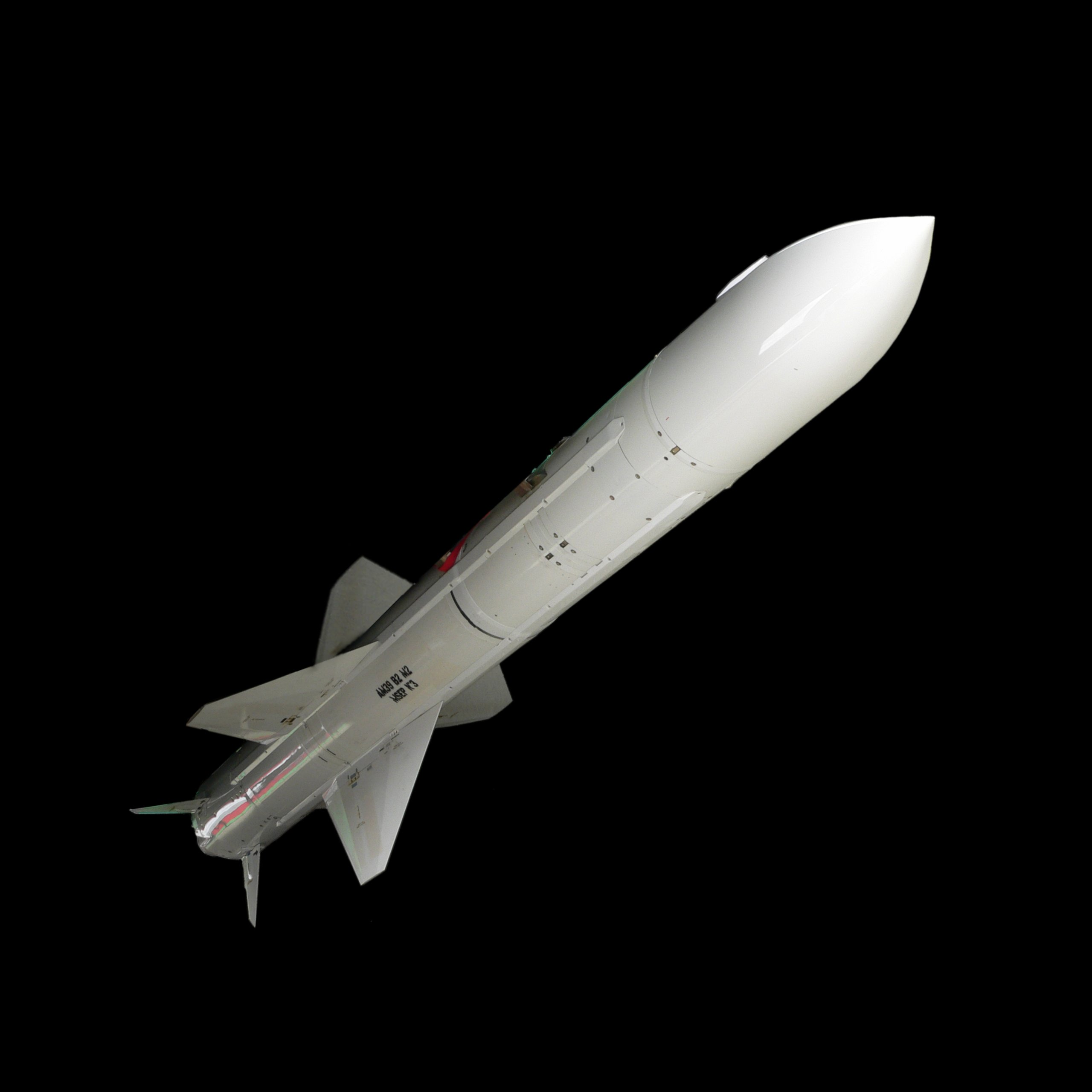 Exocet AM-39 anti-ship missile (from MBDA) under a Dassault Rafale. Detoured from Image:Exocet AM39 P1220892.jpg